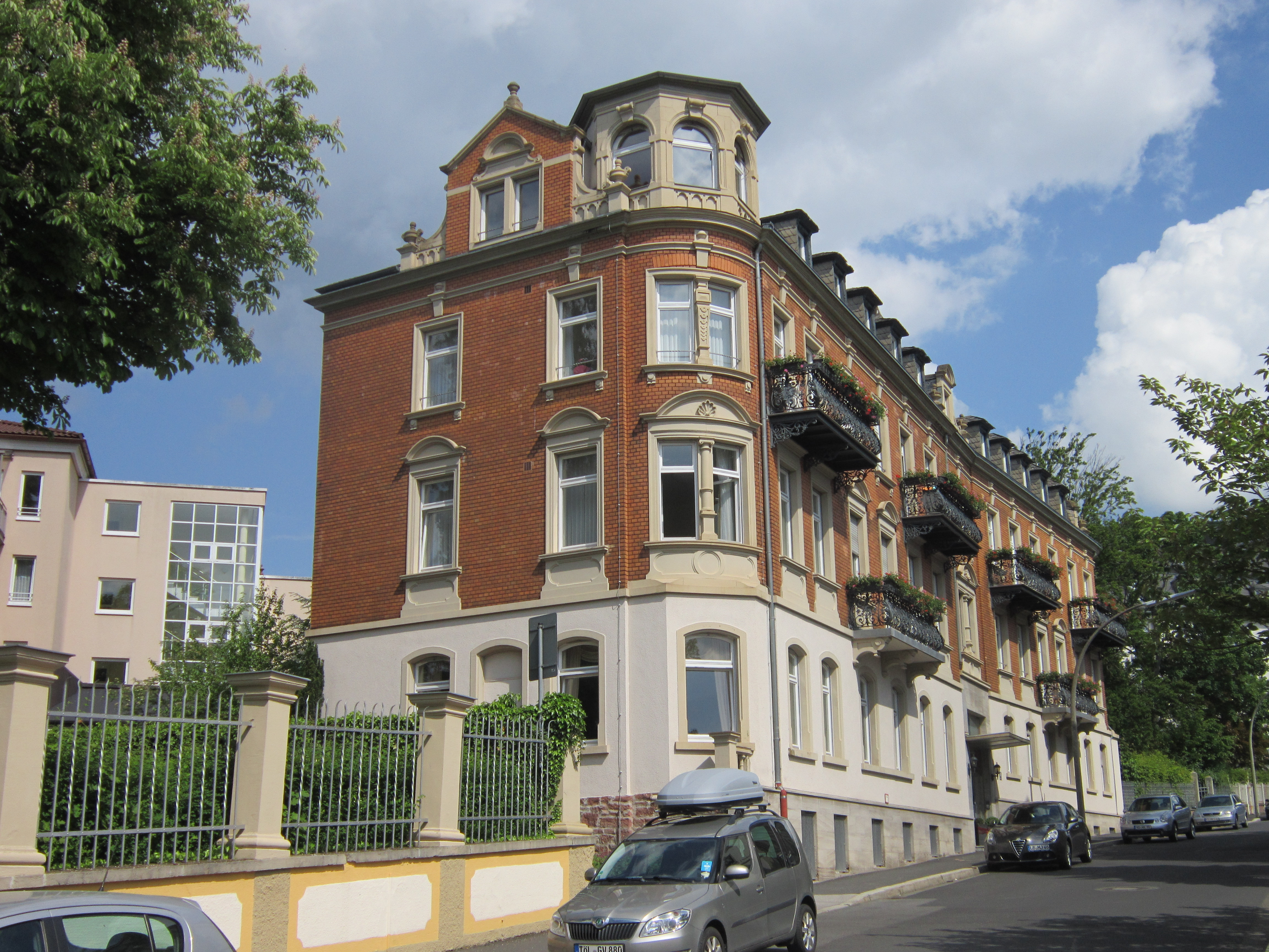 Schloßstraße 6 in the German spa town of Bad Kissingen in Lower Franconia (Bavaria).